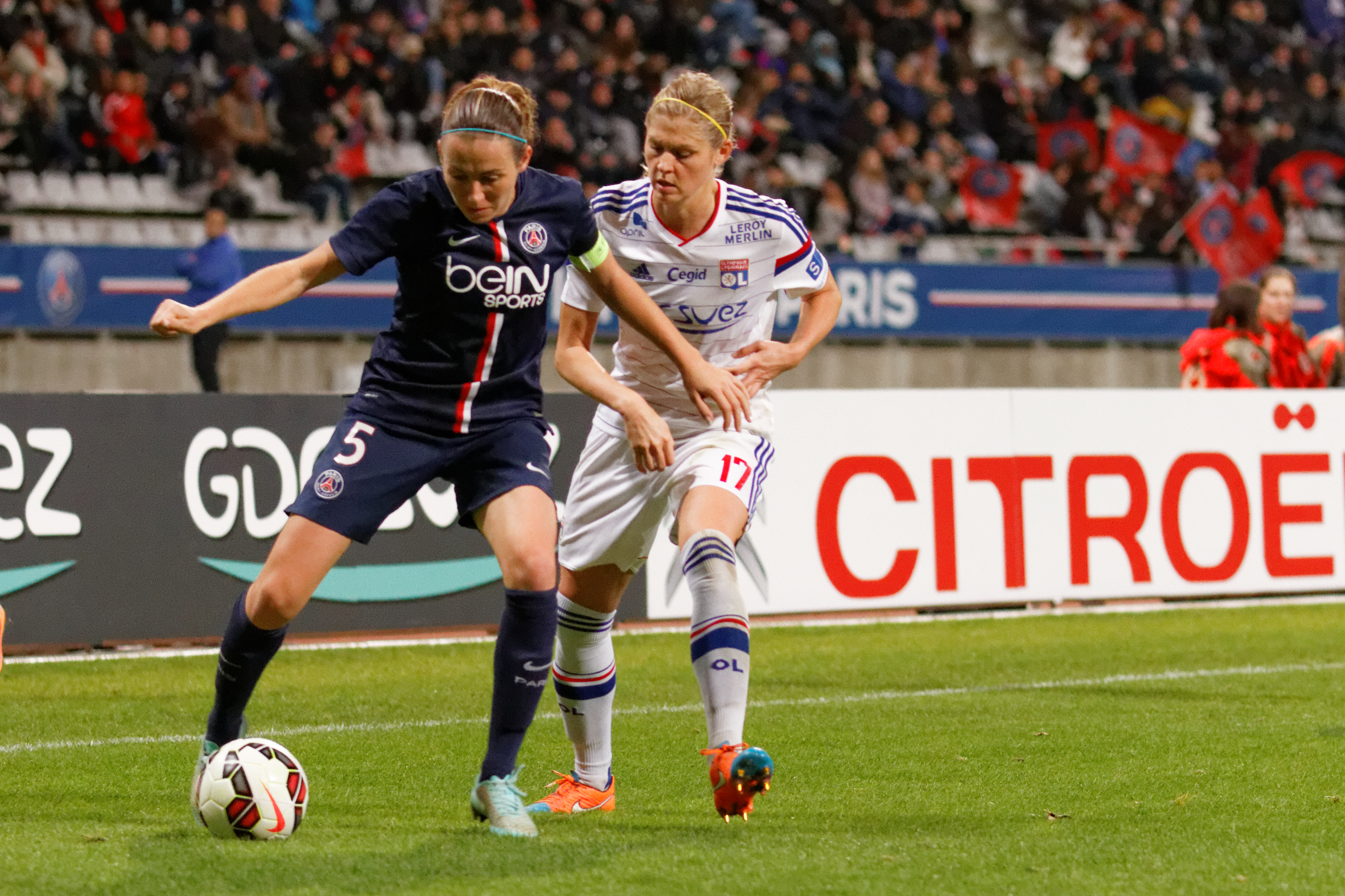 UEFA Women's Champions League, PSG - Lyon, 8 November 2014.